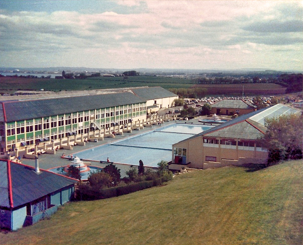 Photographs of Butlins Ayr in the early 1980s.